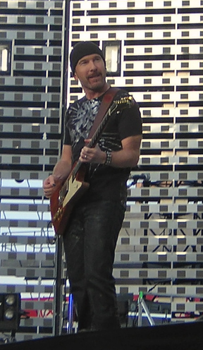 The Edge on June 18, 2005, London, England, in Twickenham Stadium holding a Gibson Explorer.